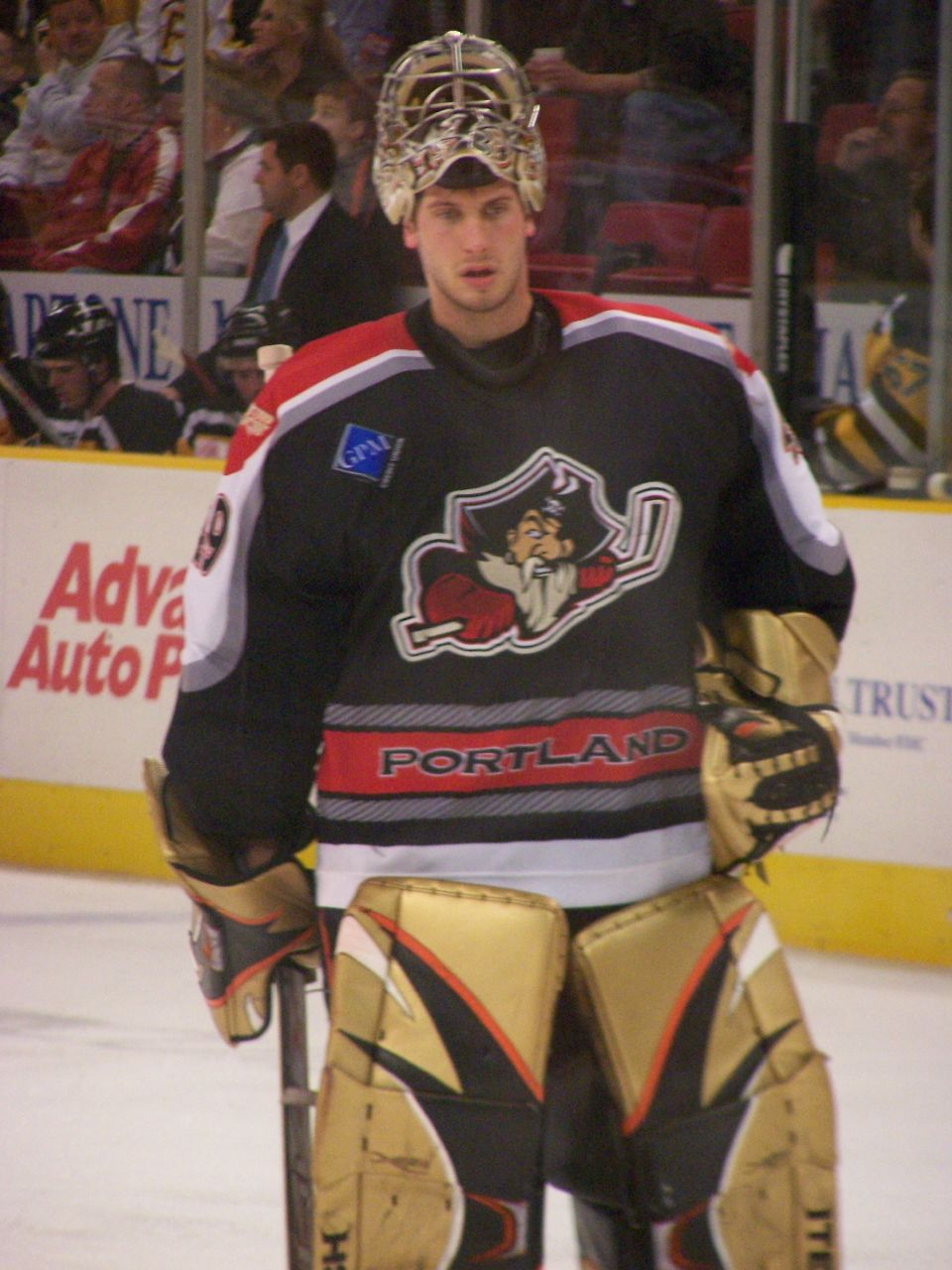 Michael Leighton, ice hockey goal tender of the Portland Pirates